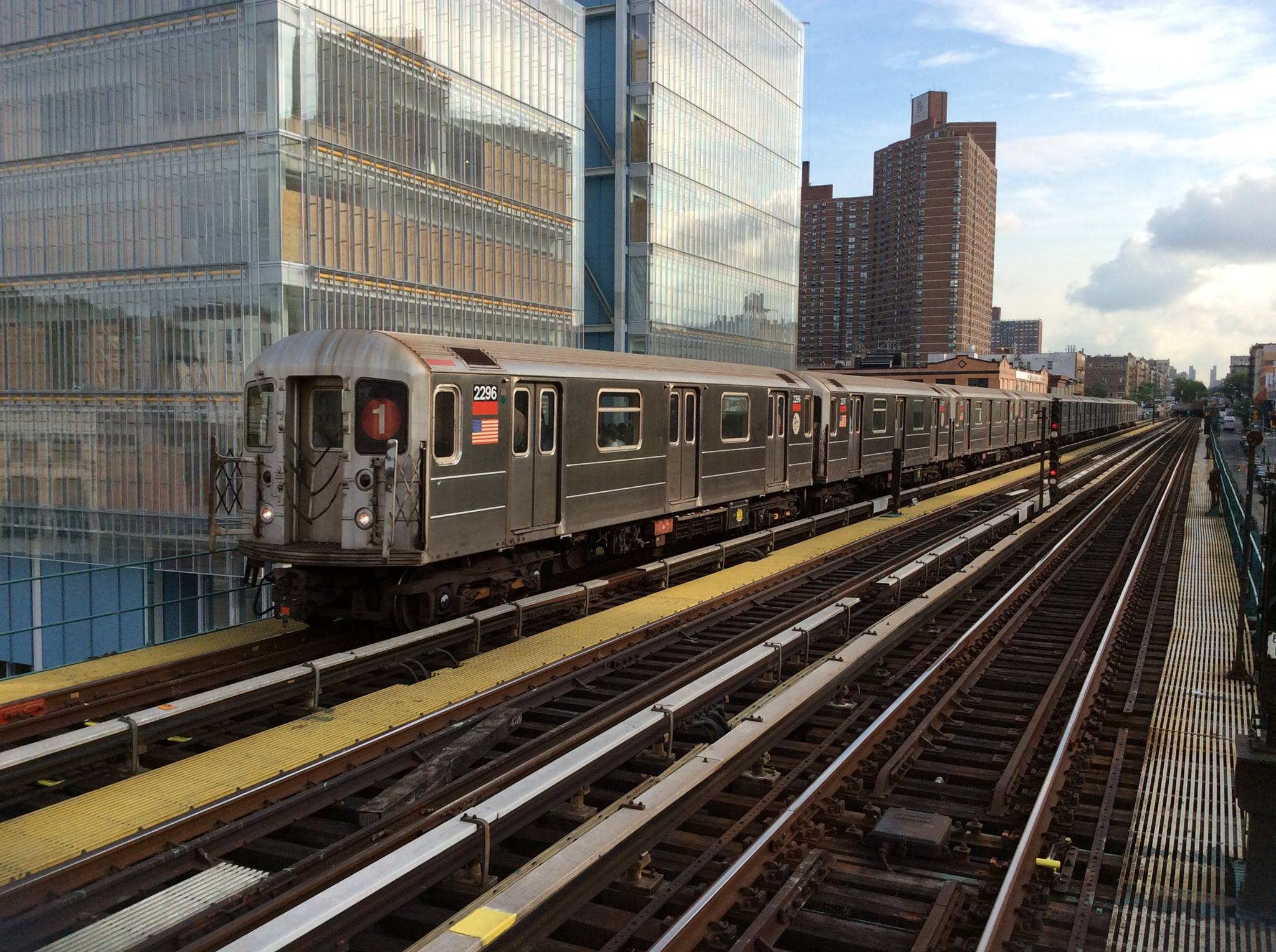 Downtown 1 train arriving at 125 St.